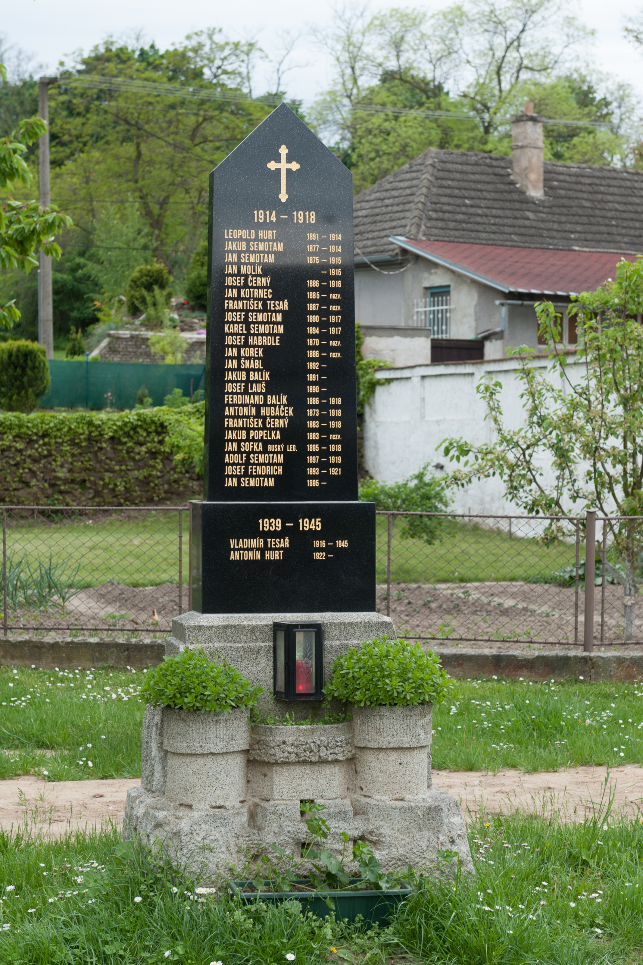 Wikitown Hustopeče: Morašice